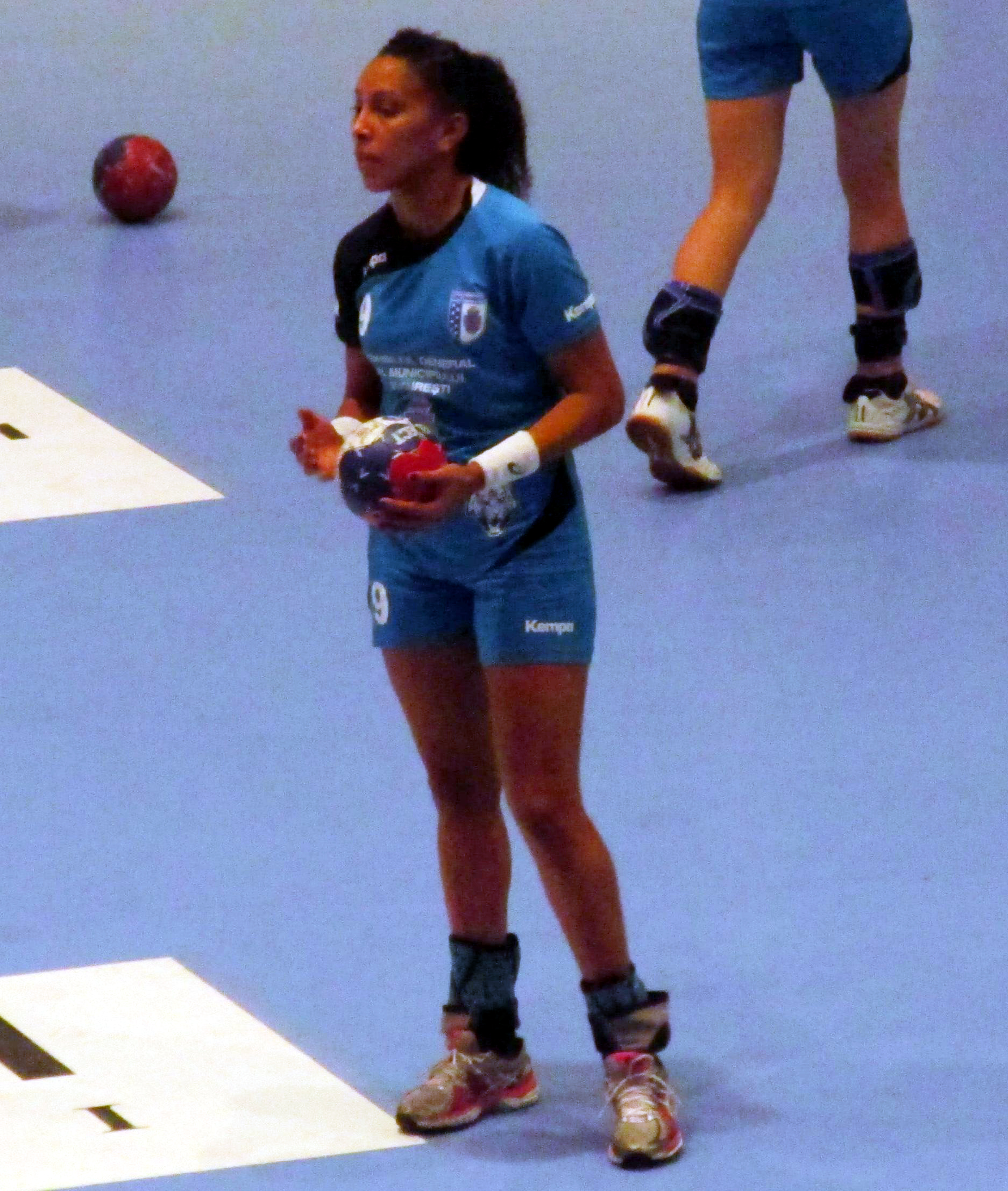 Ana Paula Rodrigues at the Bucharest Trophy 2014